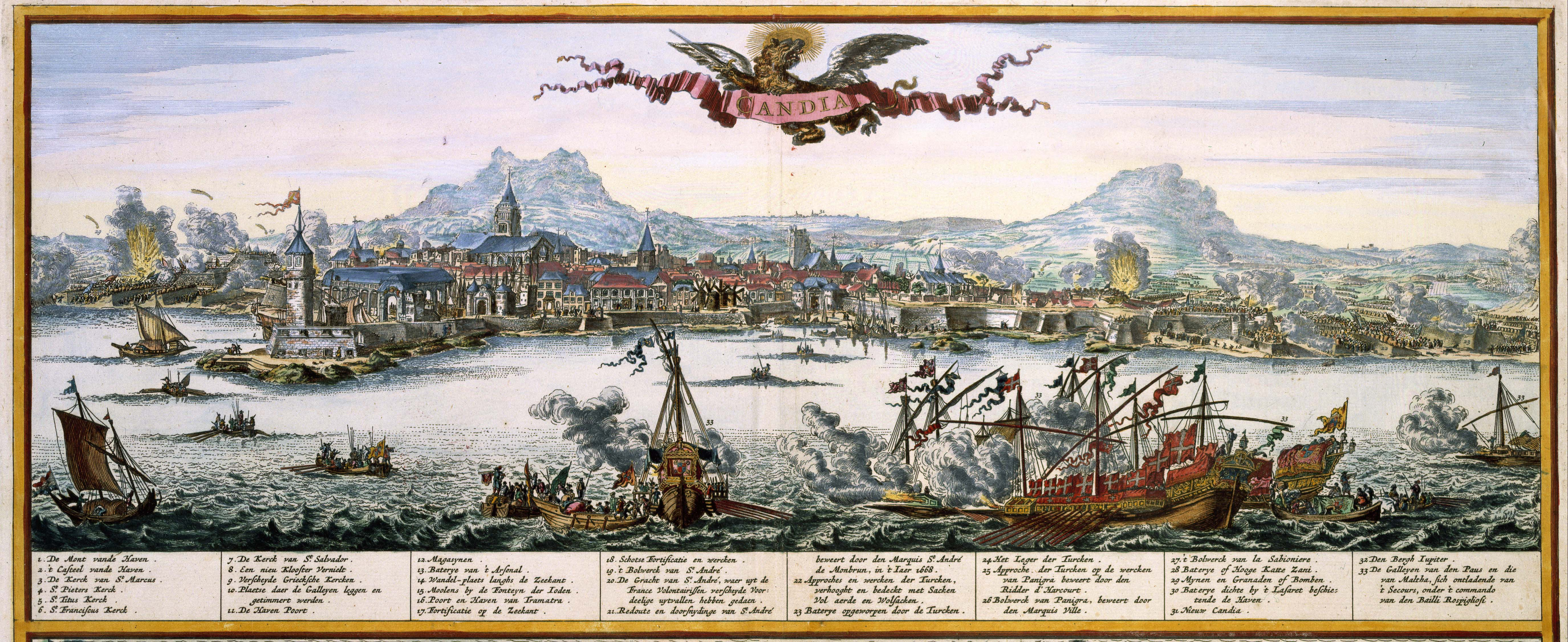 This view on Iraklion, the former Candia, was published by Nicolaes Visscher I (1618-1679). Visscher may have based the print on work by Jan Janssonius (1588-1664).